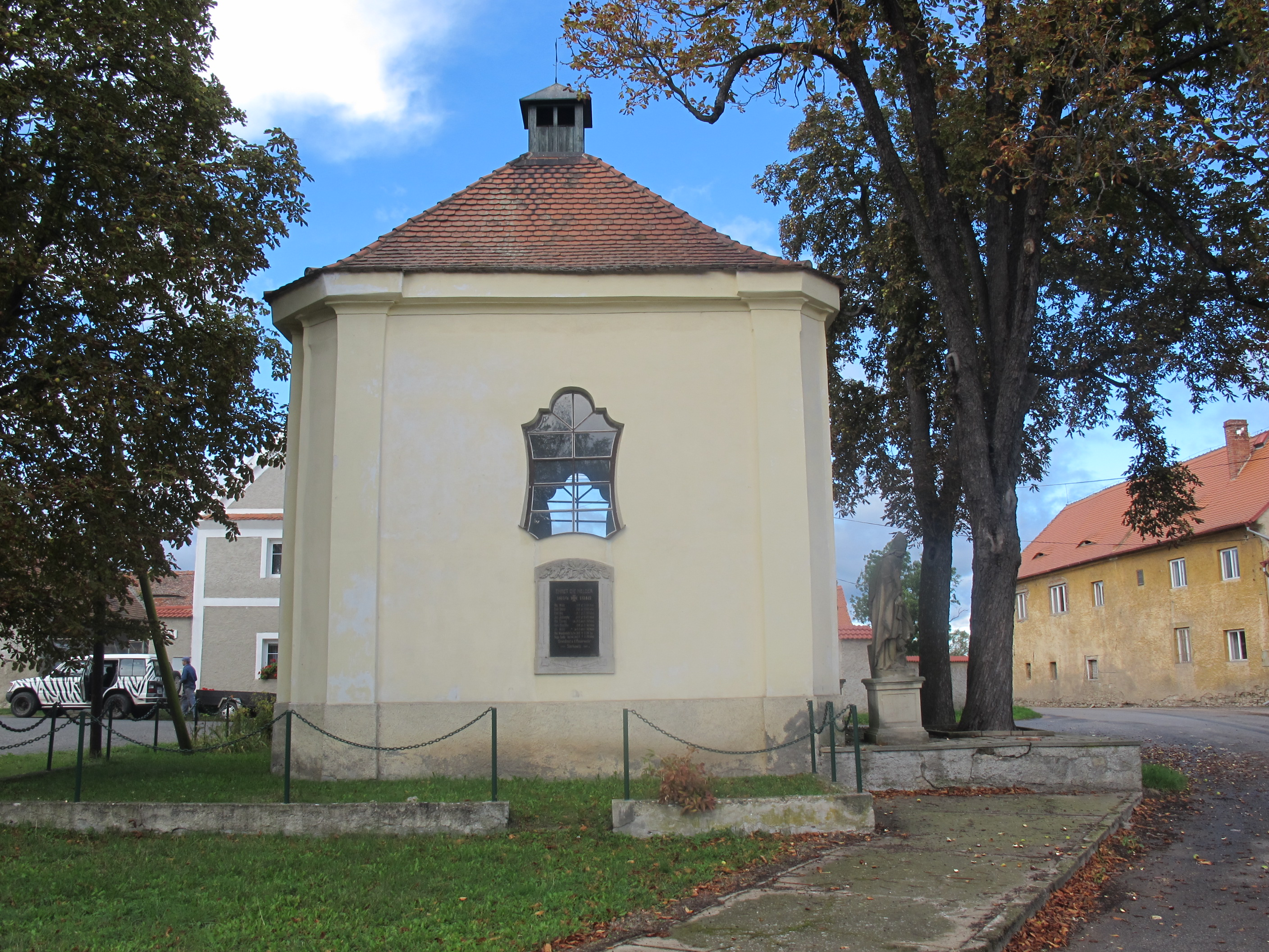 Chapel of Sainte Anne in Strkovice